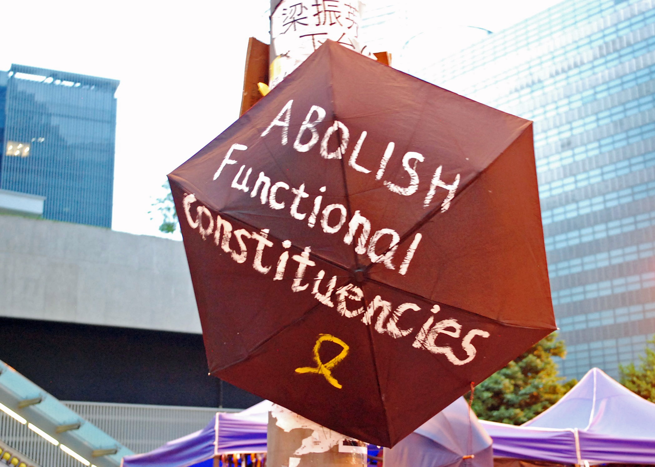 Hong Kong protests, 25 October 2014.